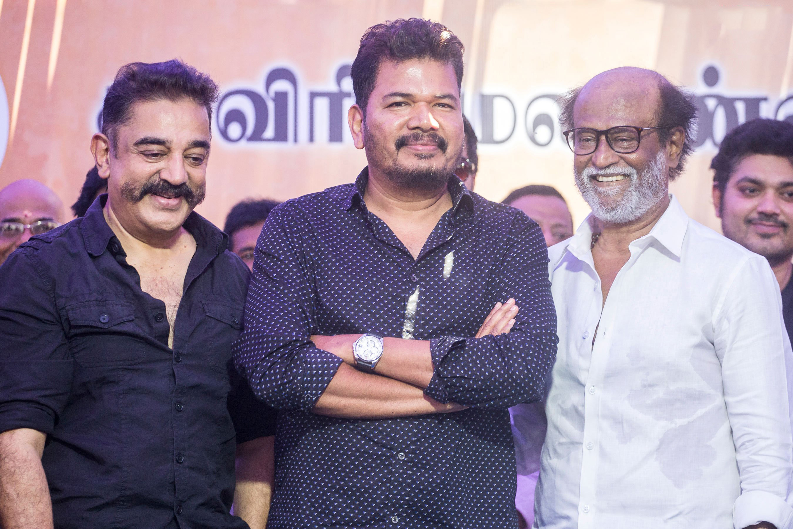 Rajinikanth, Kamal Haasan and Shankar at the Nadigar Sangam Protest